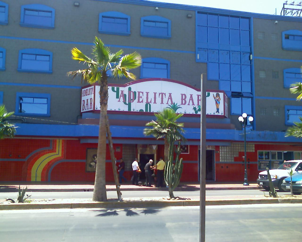 Adelita Bar, the most popular club in the Zona Norte in Tijuana.